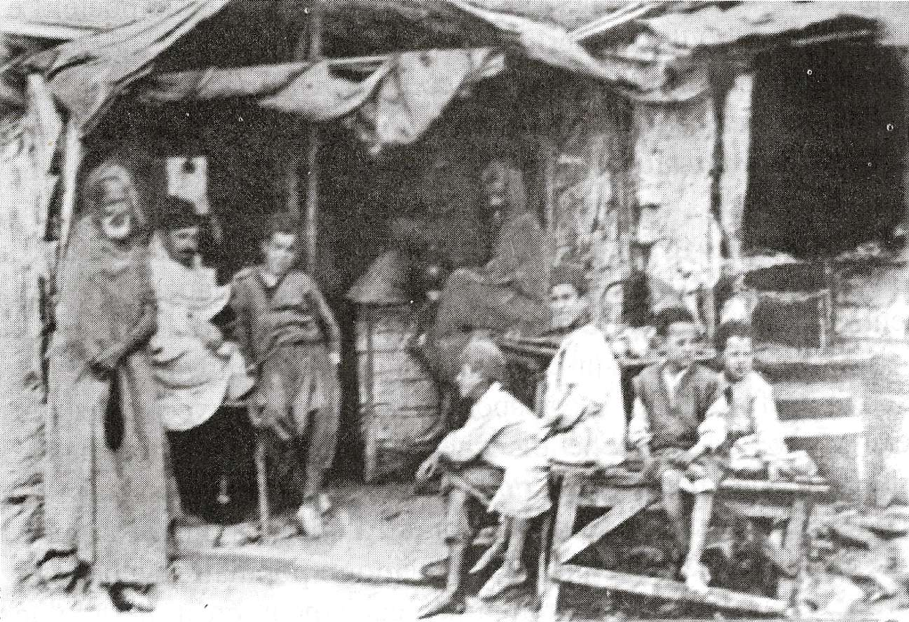 A picture in which the Kabyle poet Si Mohand reportedly appears